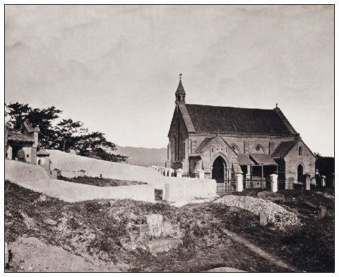 St. John's Church, Fuzhou, 1880